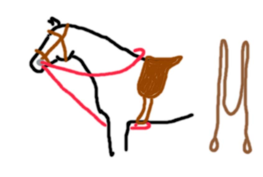 picture of draw reins on a horse and seperately